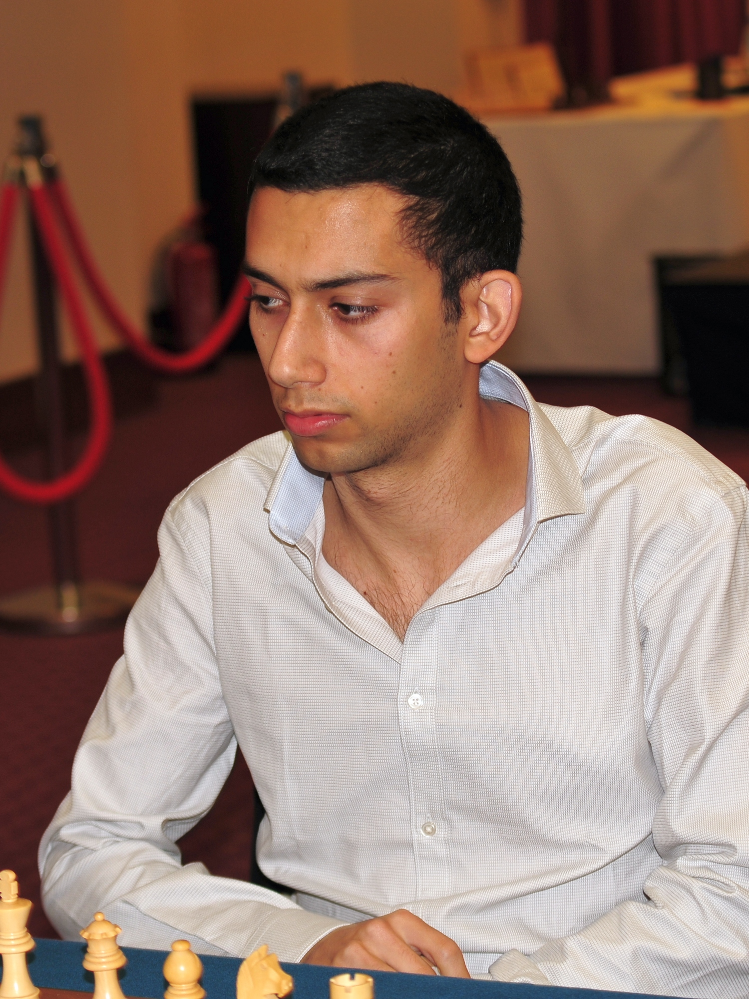 GM Tal Baron, European Chess Team Championship Warsaw 2013